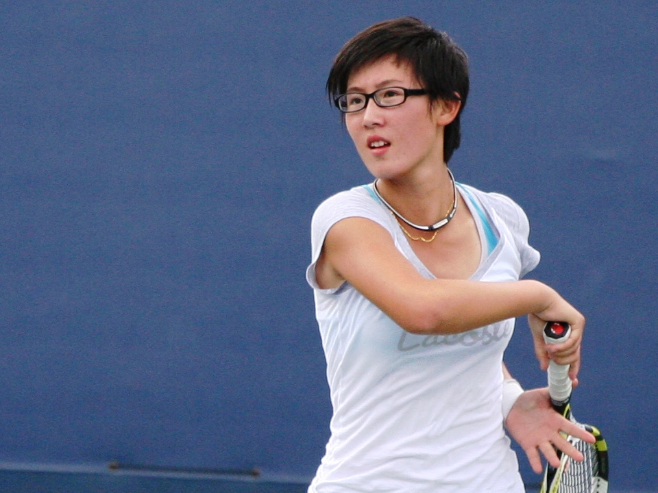 U.S. Open practice Saturday, Sept. 4, 2010